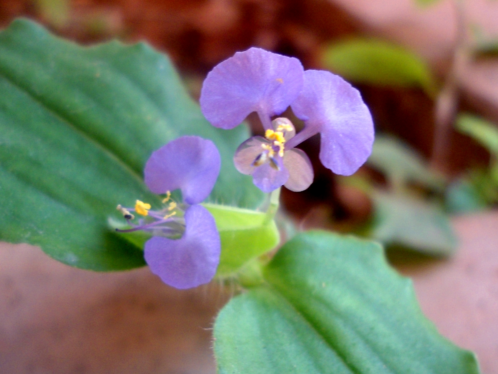 Commelina benghalensis tropical spiderwort at Madhurawada in Visakhapatnam